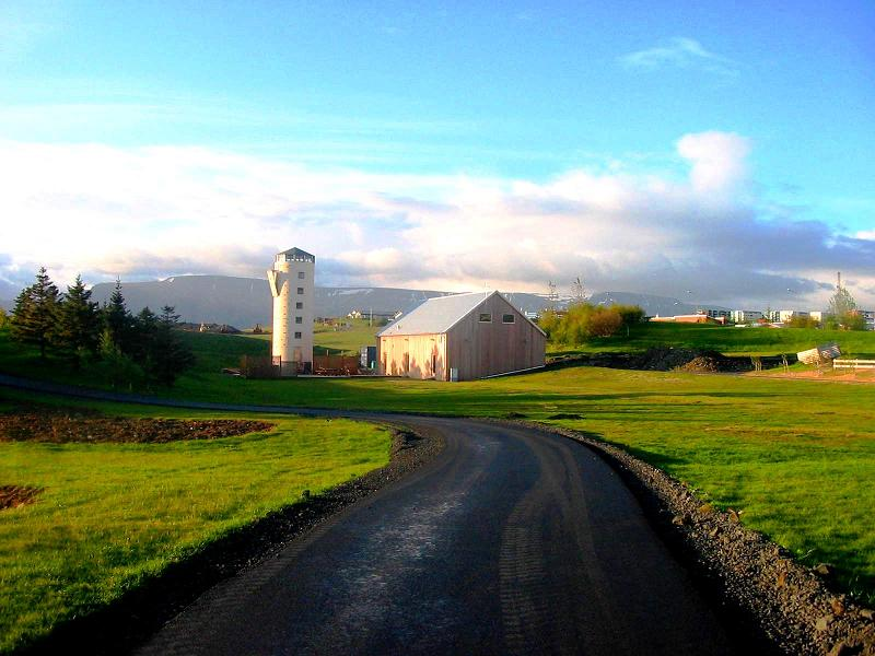 Road at Gufunesbær at Gufunes, Reykjavik city, Iceland